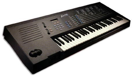 E-mu Emax